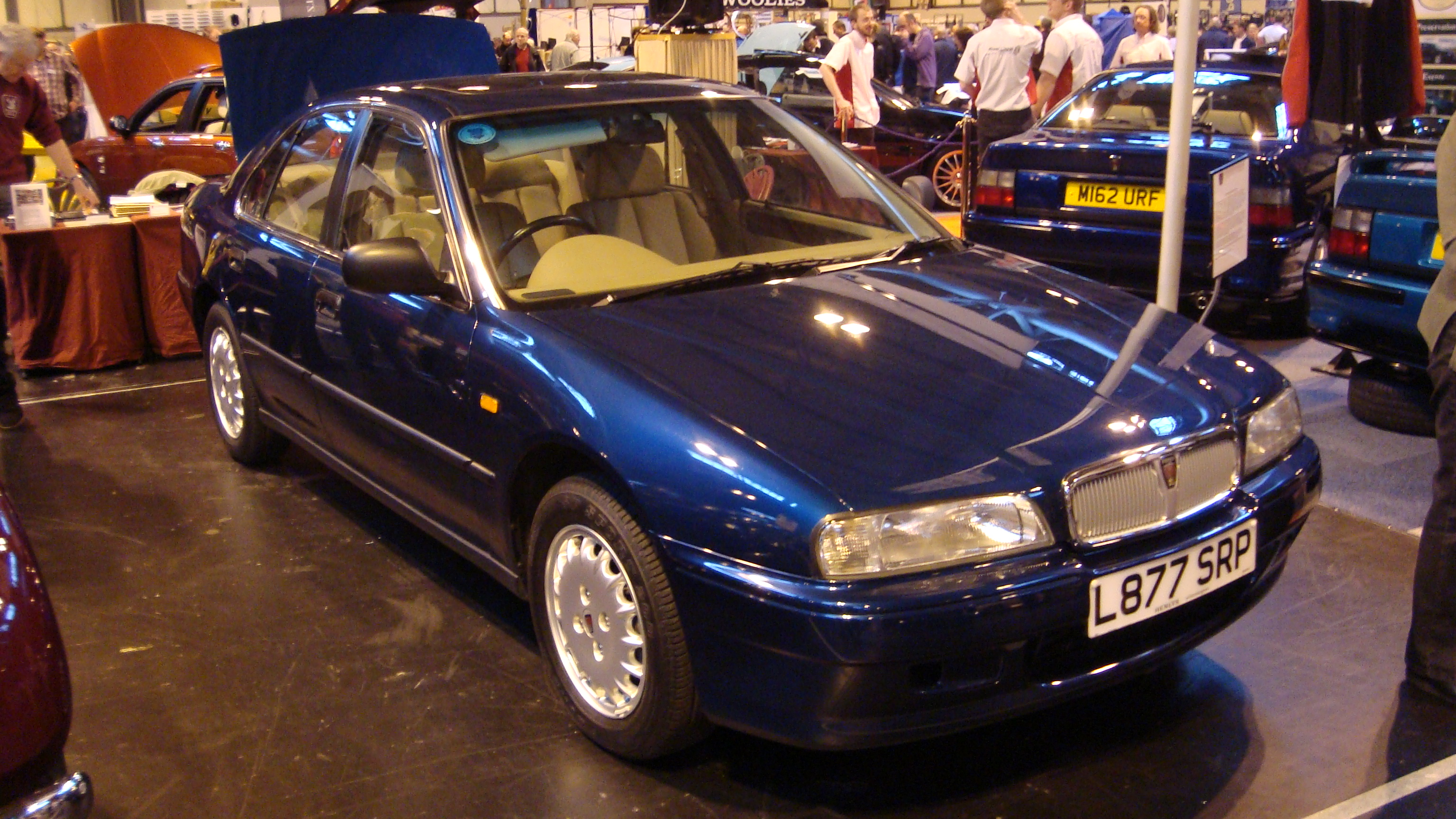 I've always liked the 600 so I was very happy to see this one on show